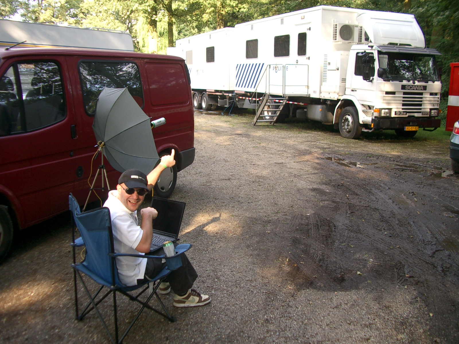 What The Hack 2005, Den Bosch, netherlands (Hackercamp): Spotting a police Truck